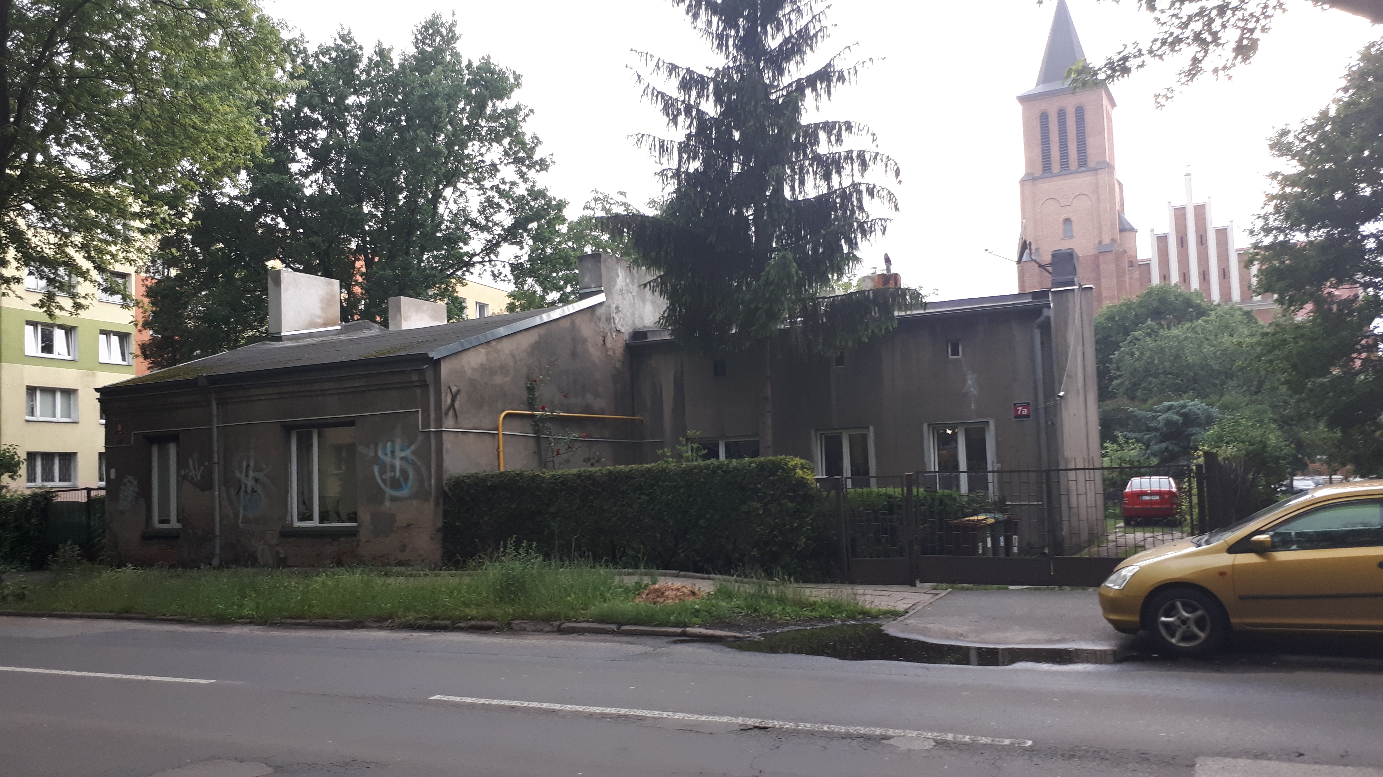 Żubardź